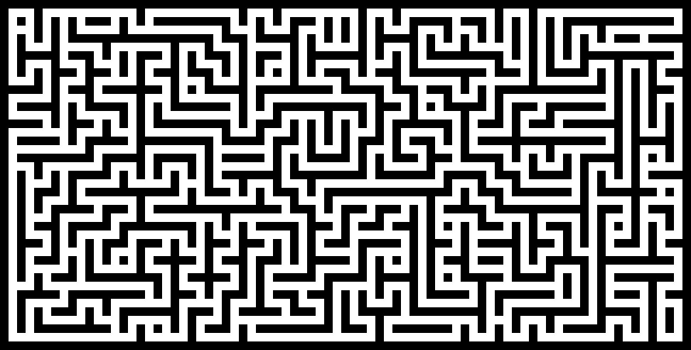 A maze without any dead ends. Generated with my maze generator.